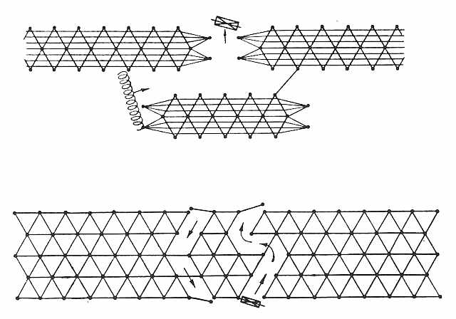 Sketch of a wire obstacle belt, from TM-E 30-480 (1 Oct 1944)